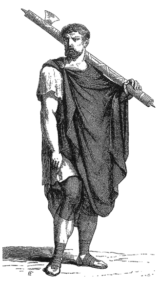 Clothes of Roman Lictor